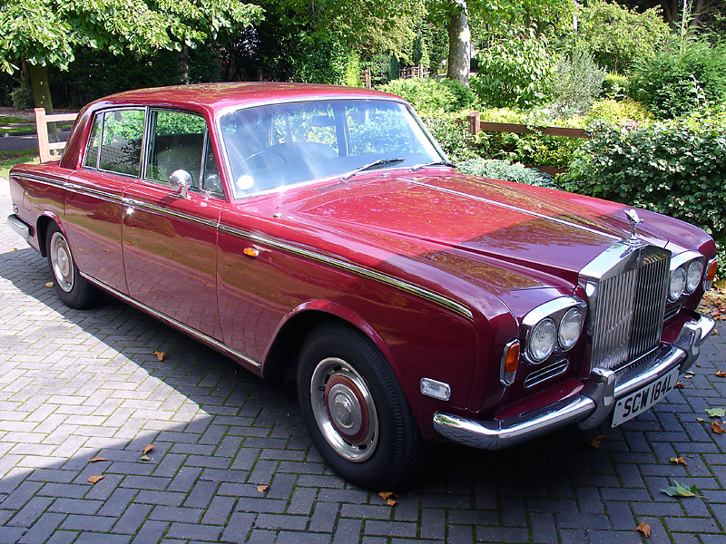 Author: ThwartedEfforts